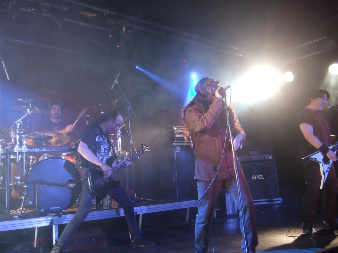 Helstar live at Colos-Saal - Aschaffenburg (Germany)